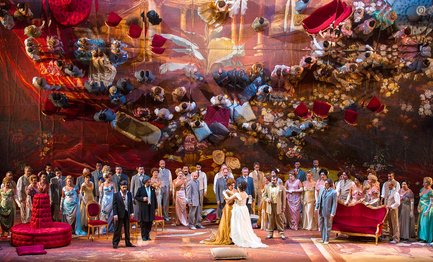 La traviata, opera by Verdi. Photo: Khalid AlBusaidi